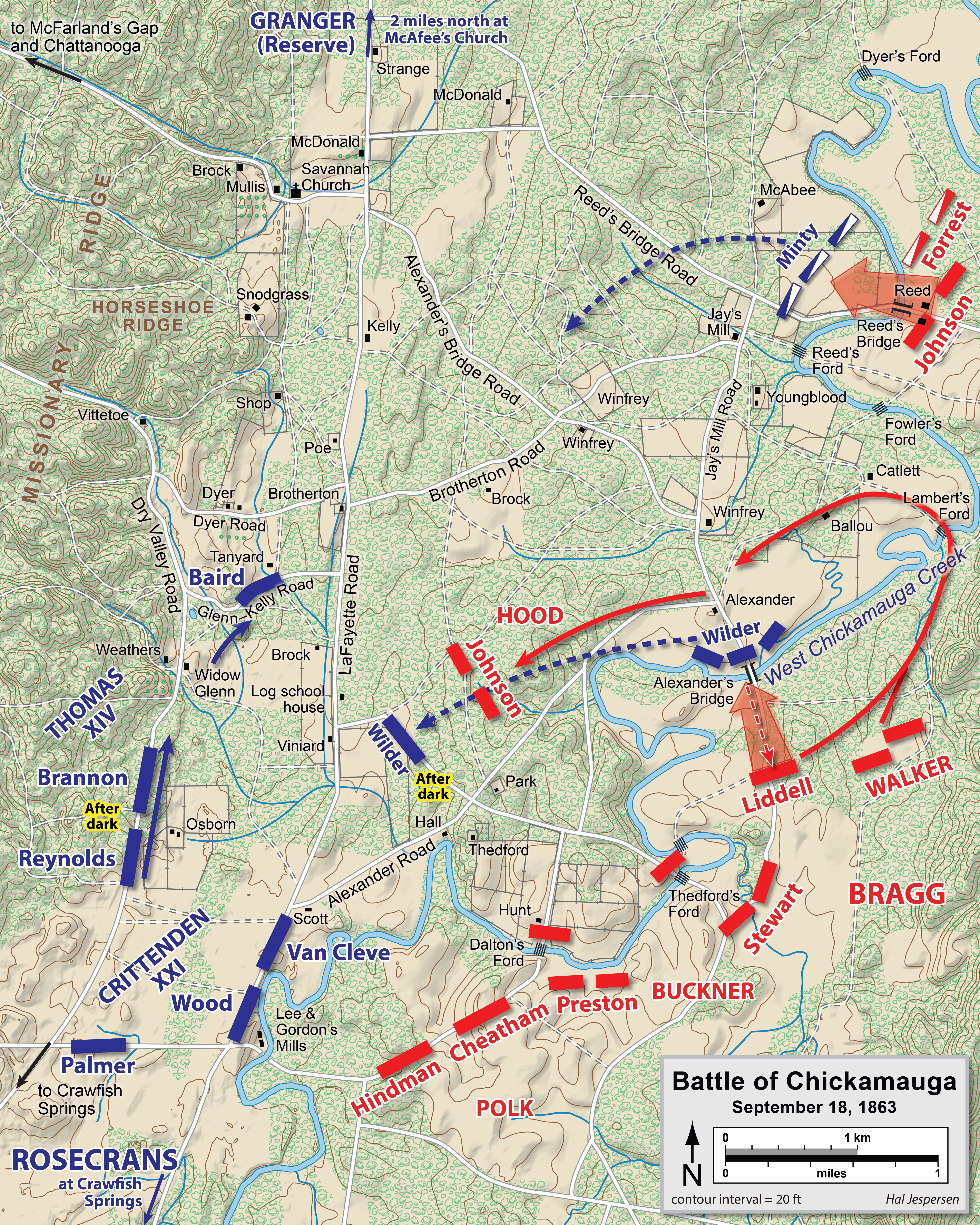 Map of Chickamauga Campaign, movements September 18, 1863, of the American Civil War. Drawn in Adobe Illustrator CS5 by Hal Jespersen. Graphic source file is available at